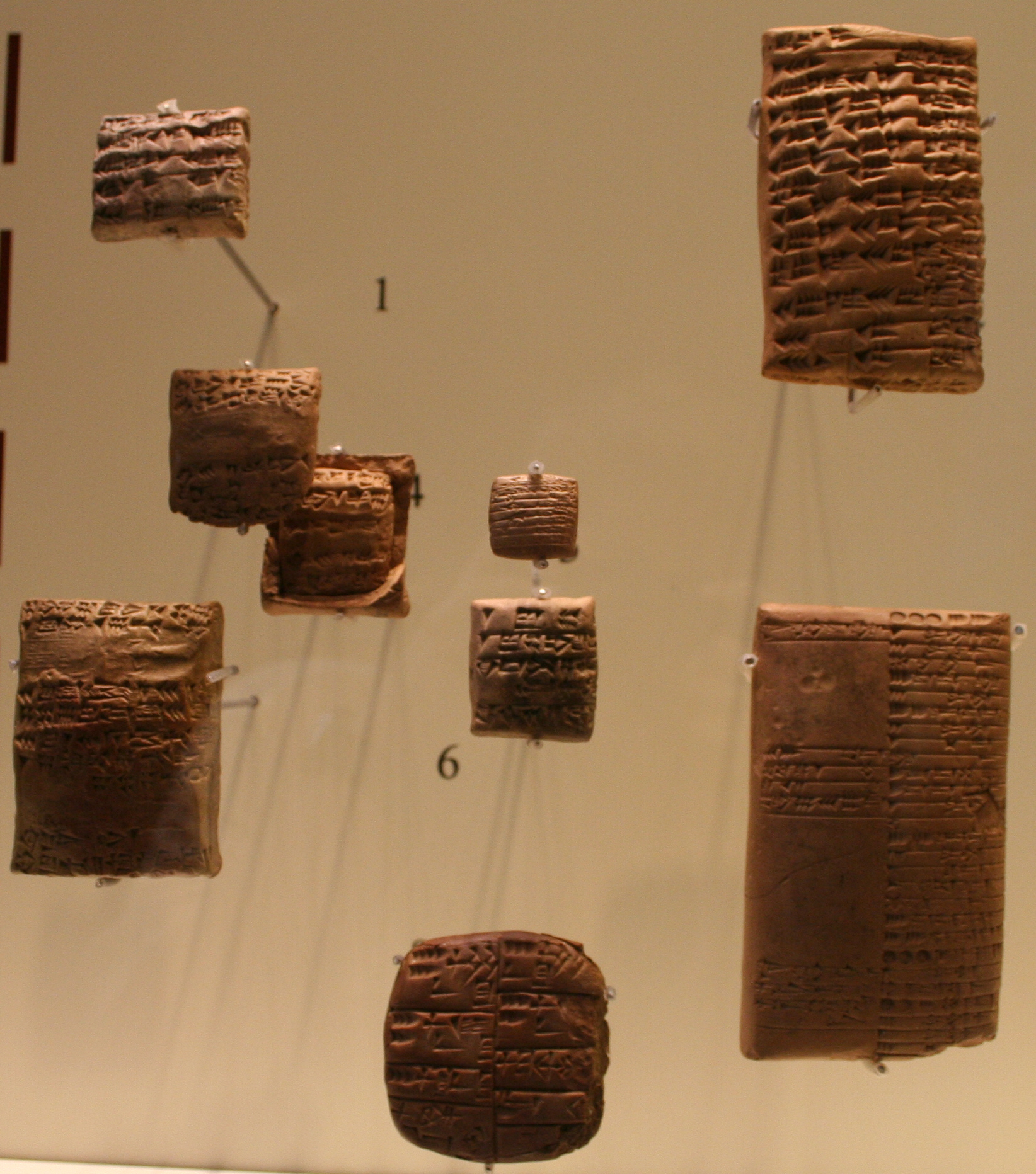 Cuneiform clay tablets